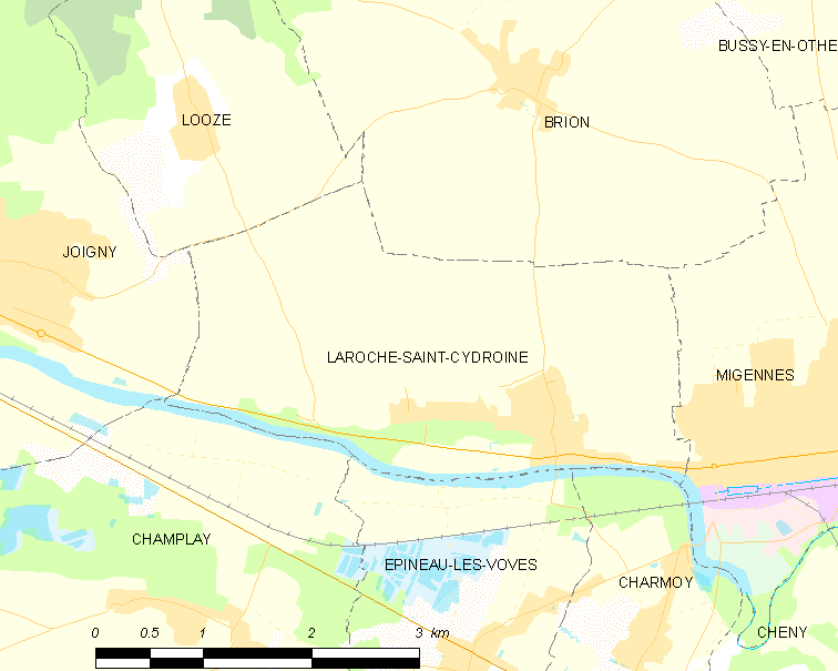 Map of French municipality Laroche-Saint-Cydroine